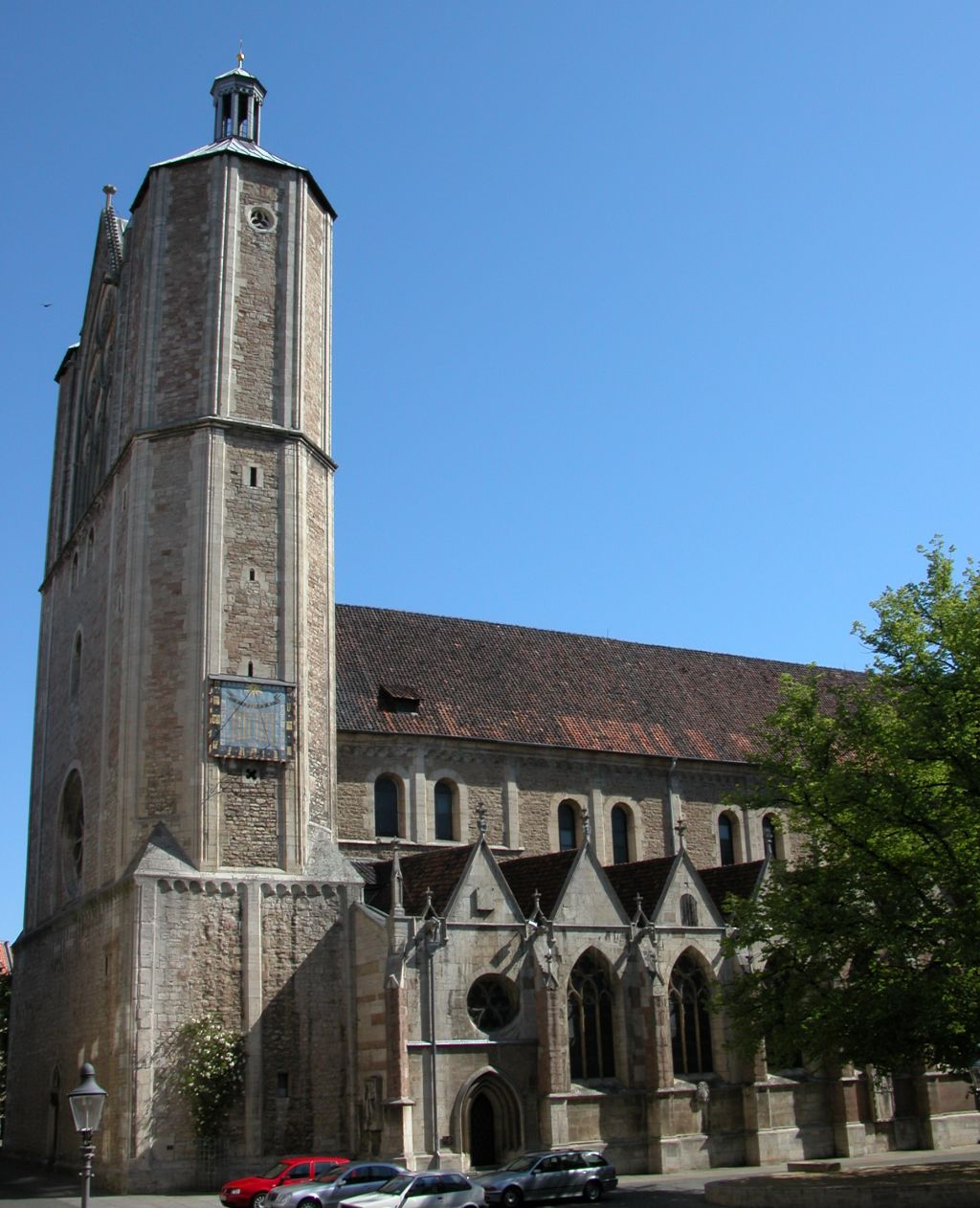 Brunswyck Cathedral, wiew from south